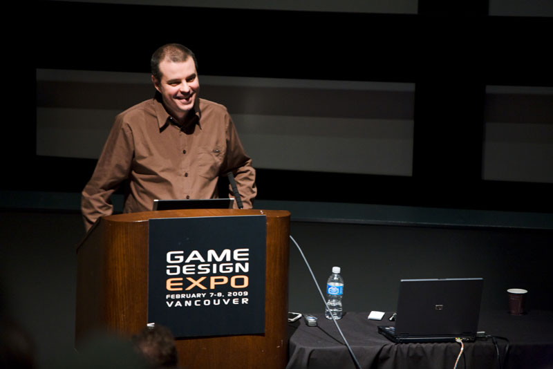 Clint Hocking delivering a keynote at Game Design Expo 2009 in Vancouver, Canada.